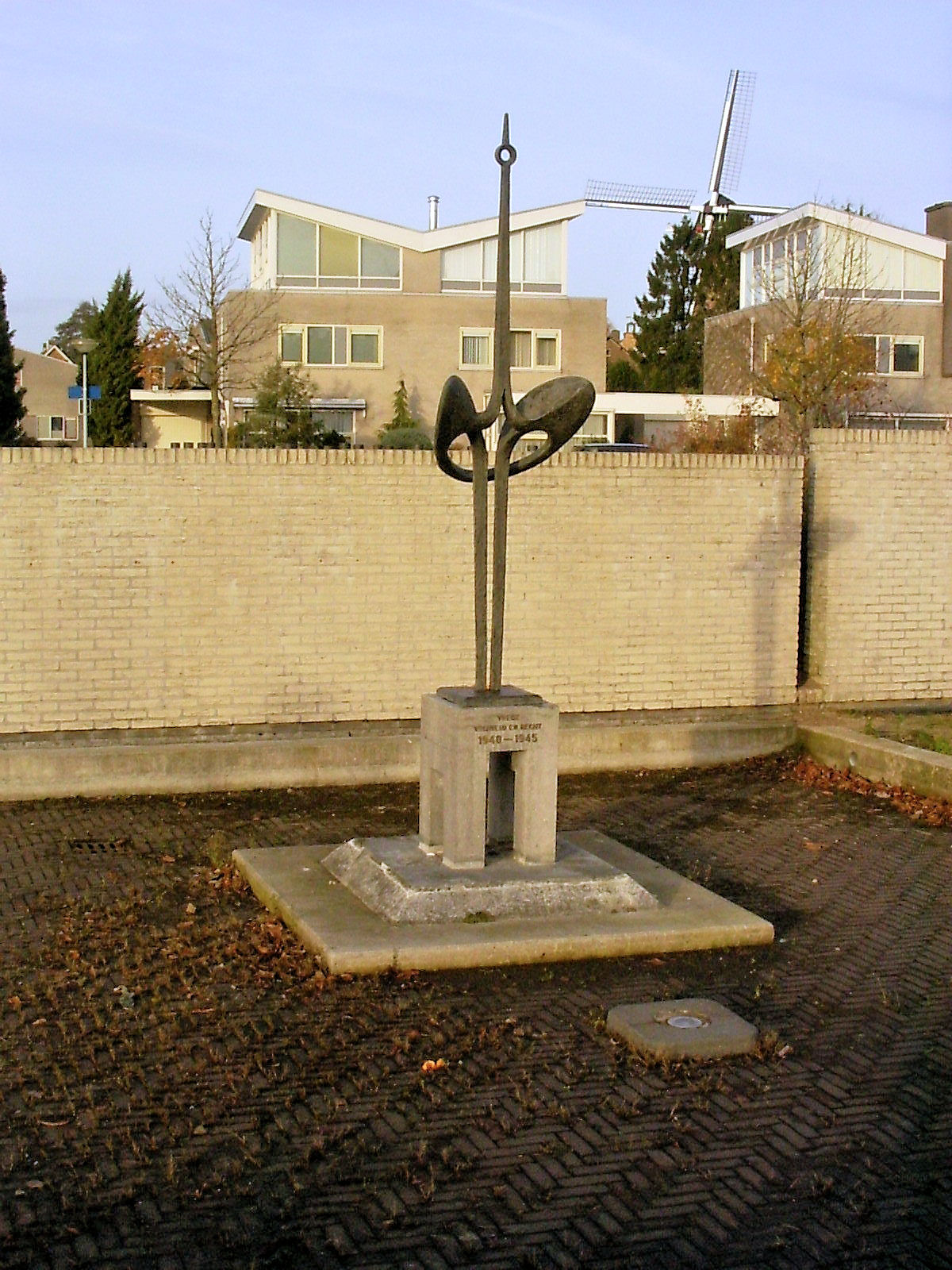 Renkum, war memorial on Europe Square